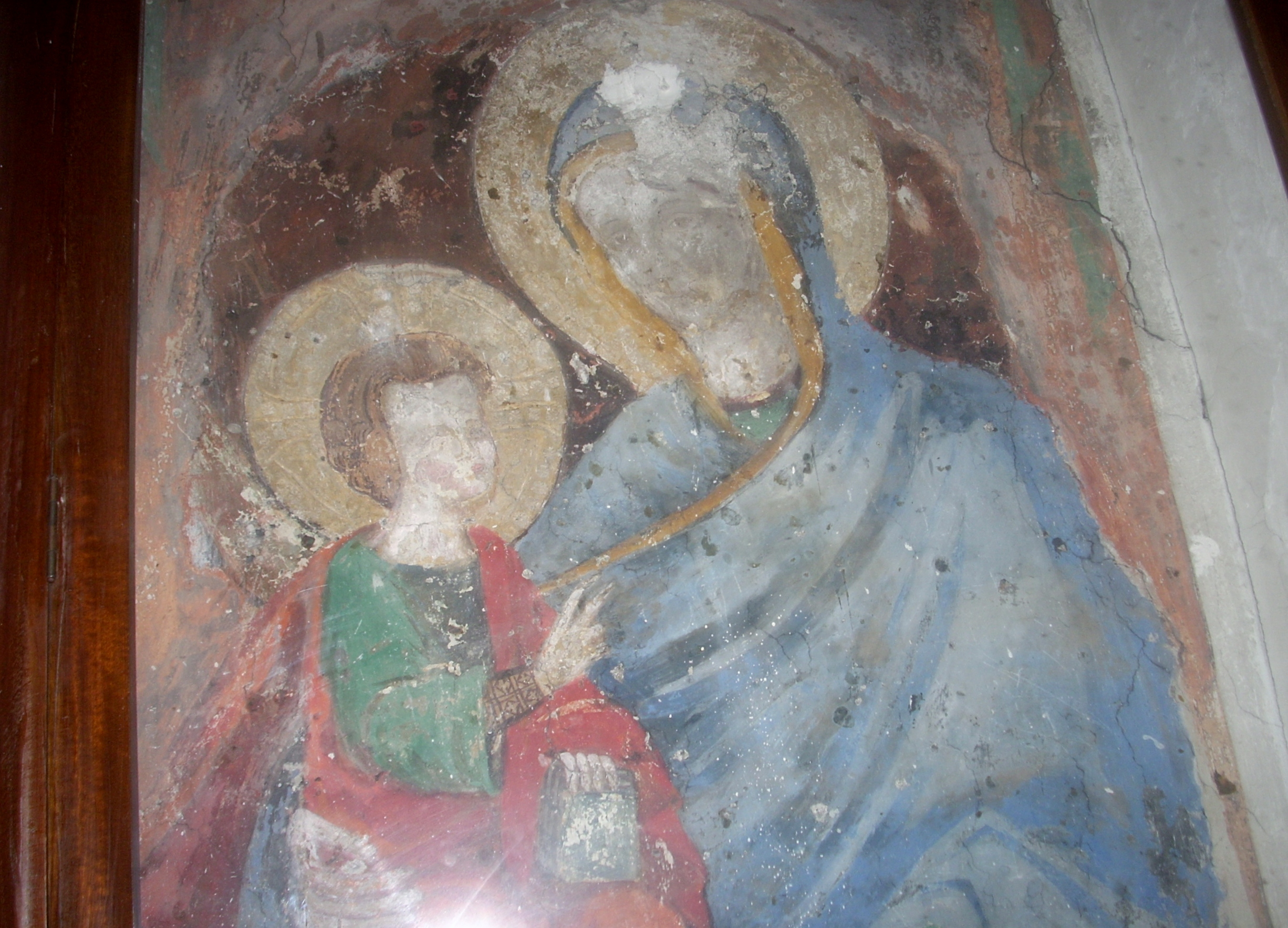 Byzantine fresco of Madonna and child from Sanctuary of Gibilmanna, Sicily